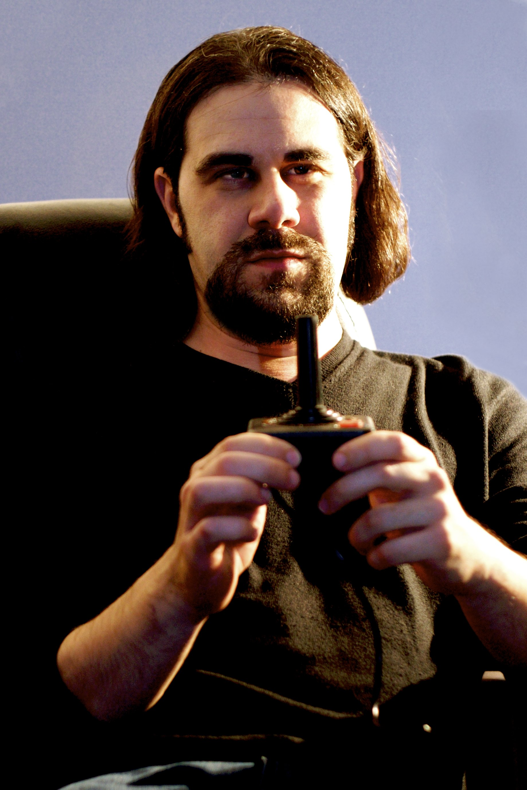 Ian Bogost, game-studies scholar